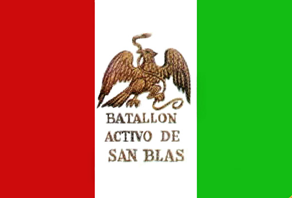 Flag of Batallon de San Blas (Reverse)